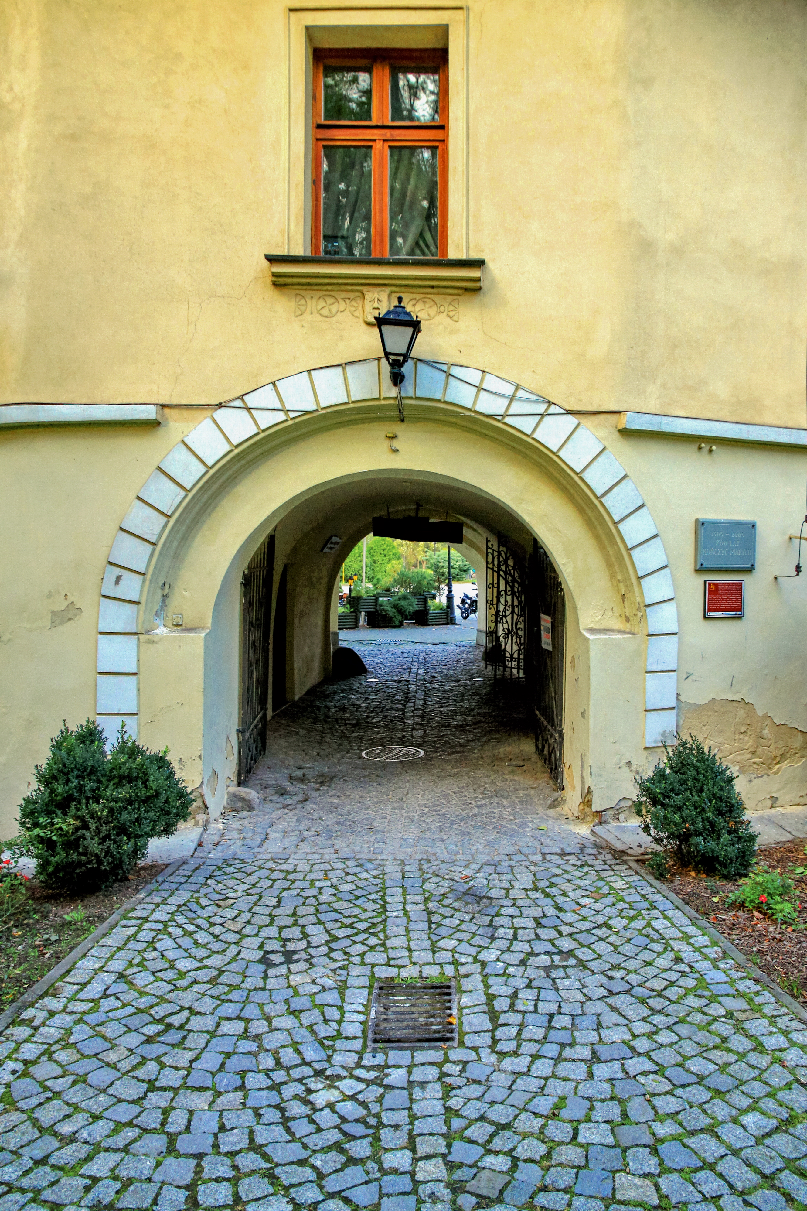 Castle. Kończyce Małe, Silesian Voivodeship, Poland.